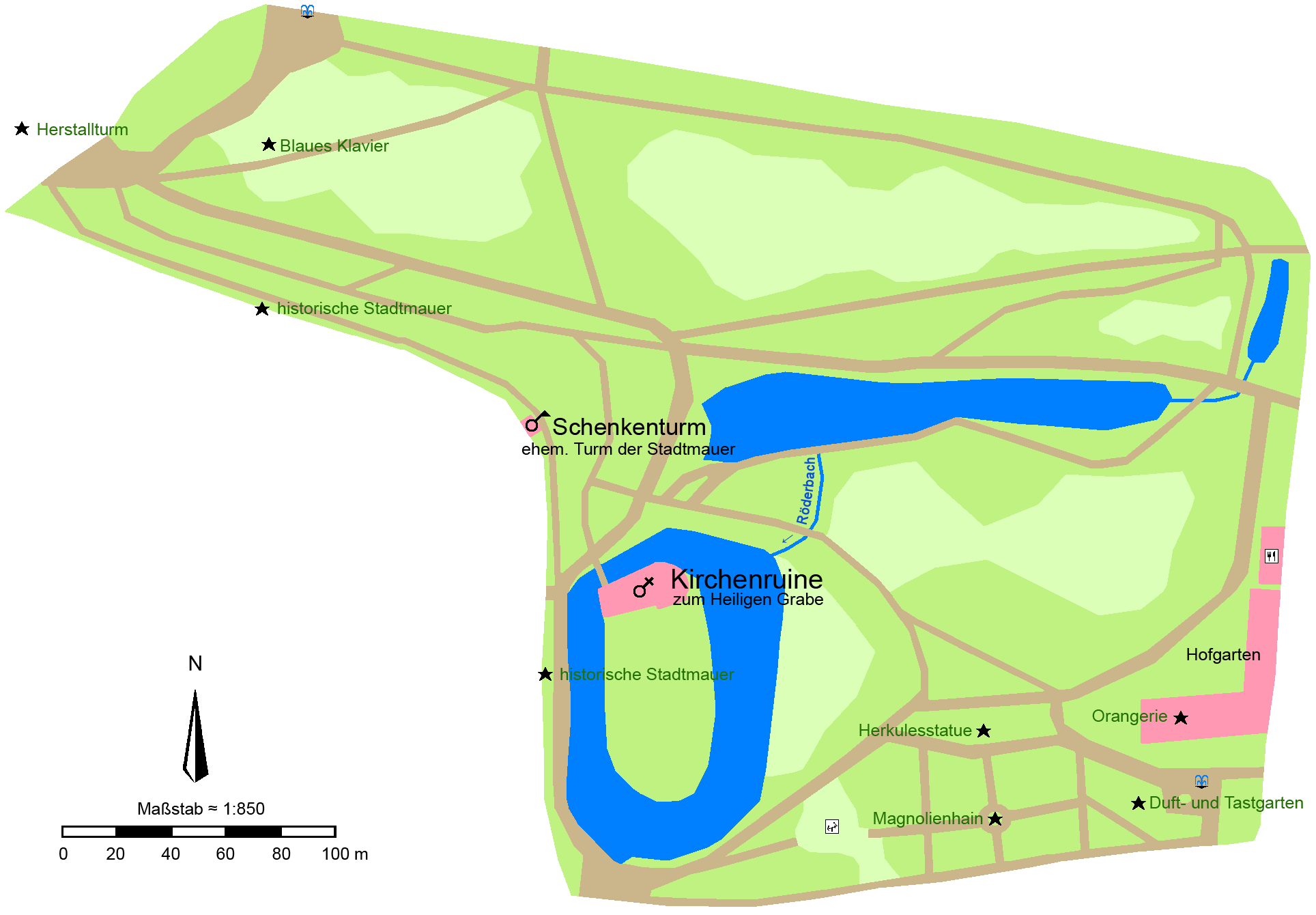 Map of Park Schöntal in Aschaffenburg, Bavaria Building Forest, Tree Meadow Body of water Ruin Church ruin tourist attraction Restaurant Playground Fountain Trail